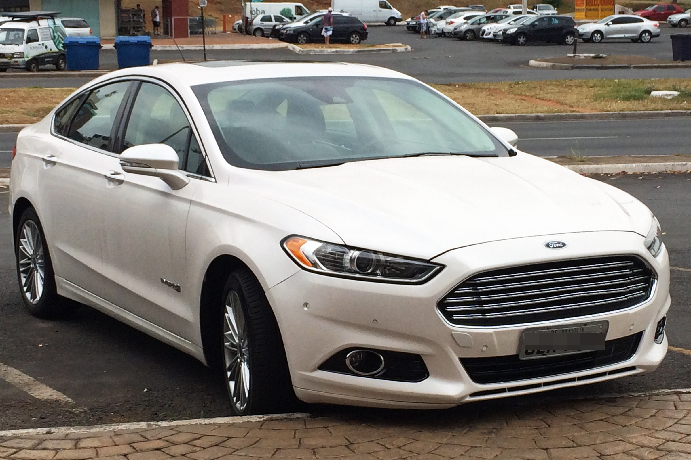 Ford Fusion Hybrid in Brasilia, Brazil